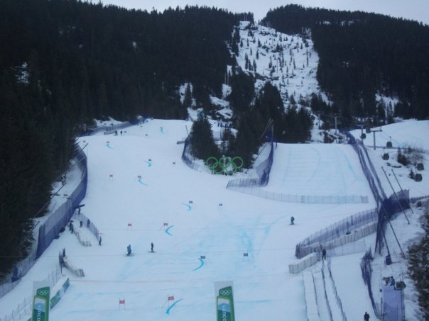 Whistler Creekside, the venue for Alpine Skiing